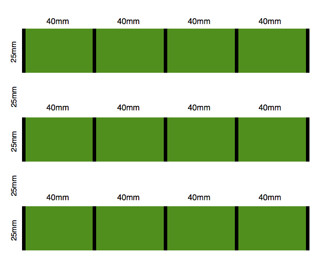 Size of Pouch Attachment Ladder System (PALS), which are based on 25 mm (1 in) wide webbing with 40 mm (1.5 in) spacing between each sewing point.